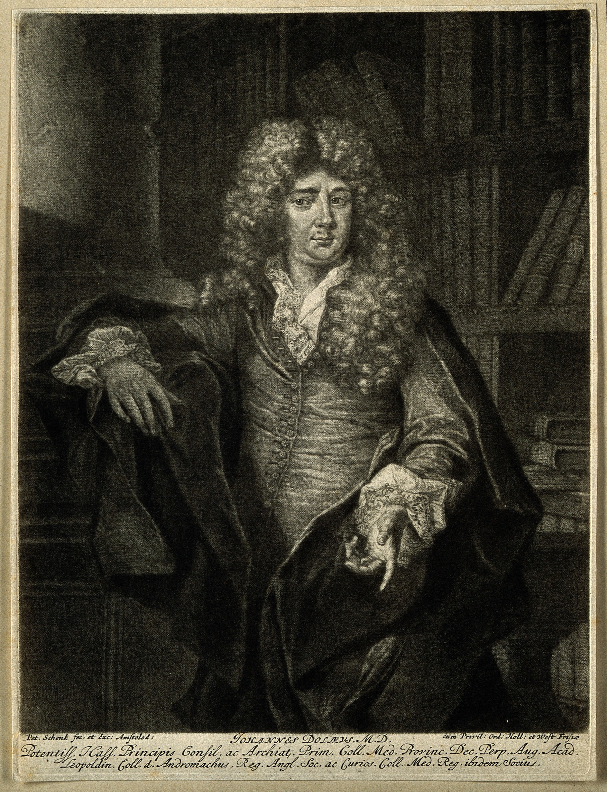 Johannes Dolaeus. Mezzotint by P. Schenck after himself. Iconographic Collections Keywords: portrait prints; Johann Dolaeus; mezzotints; Pieter Schenck